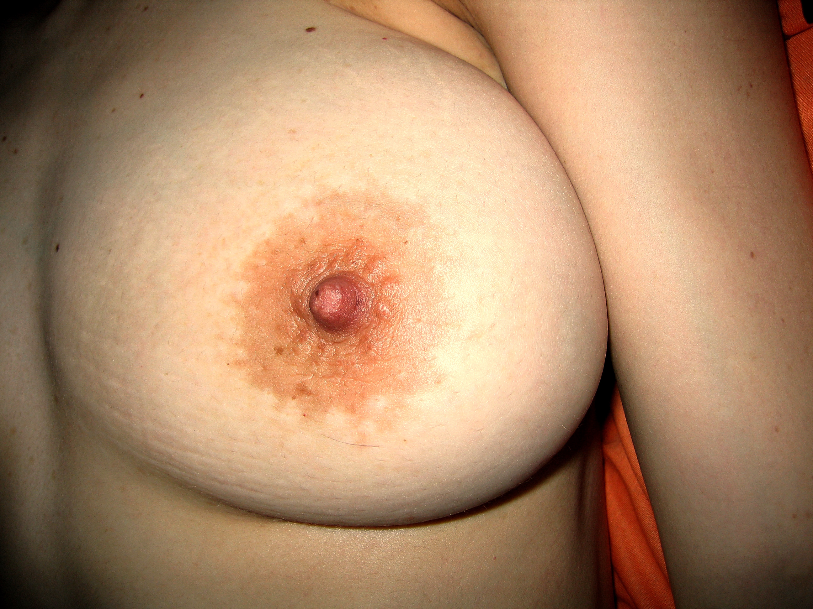 Human female breast